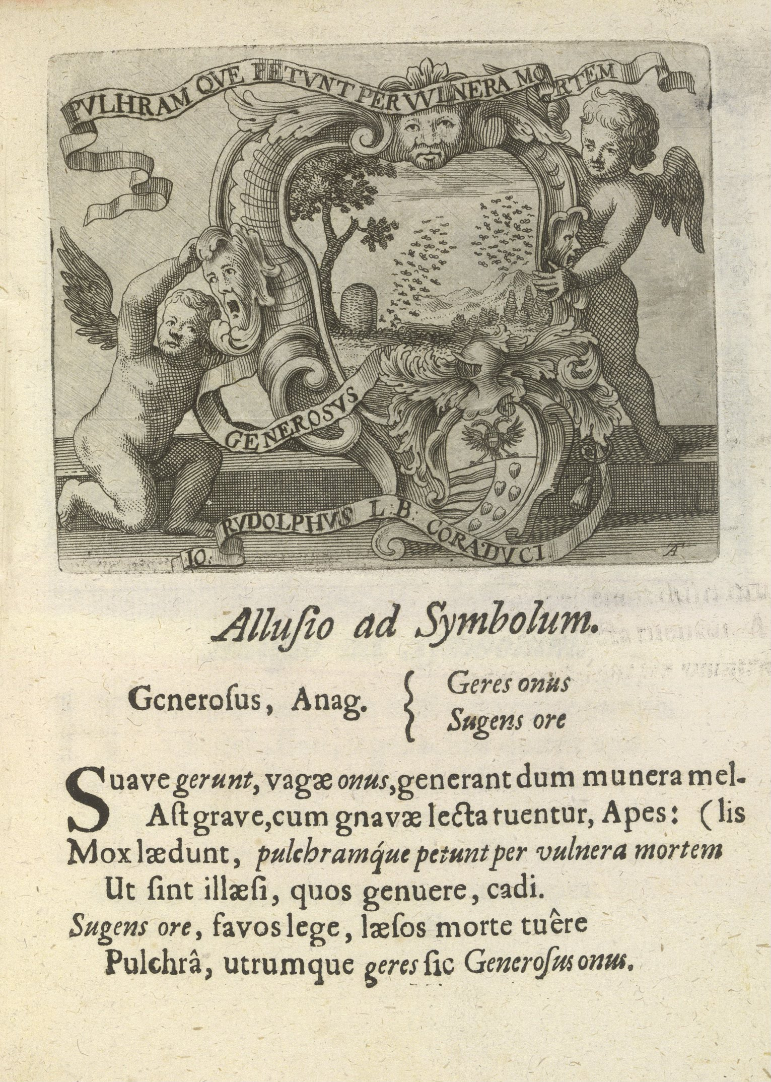 The escutcheon of the Academicae operosorum Labacensium.